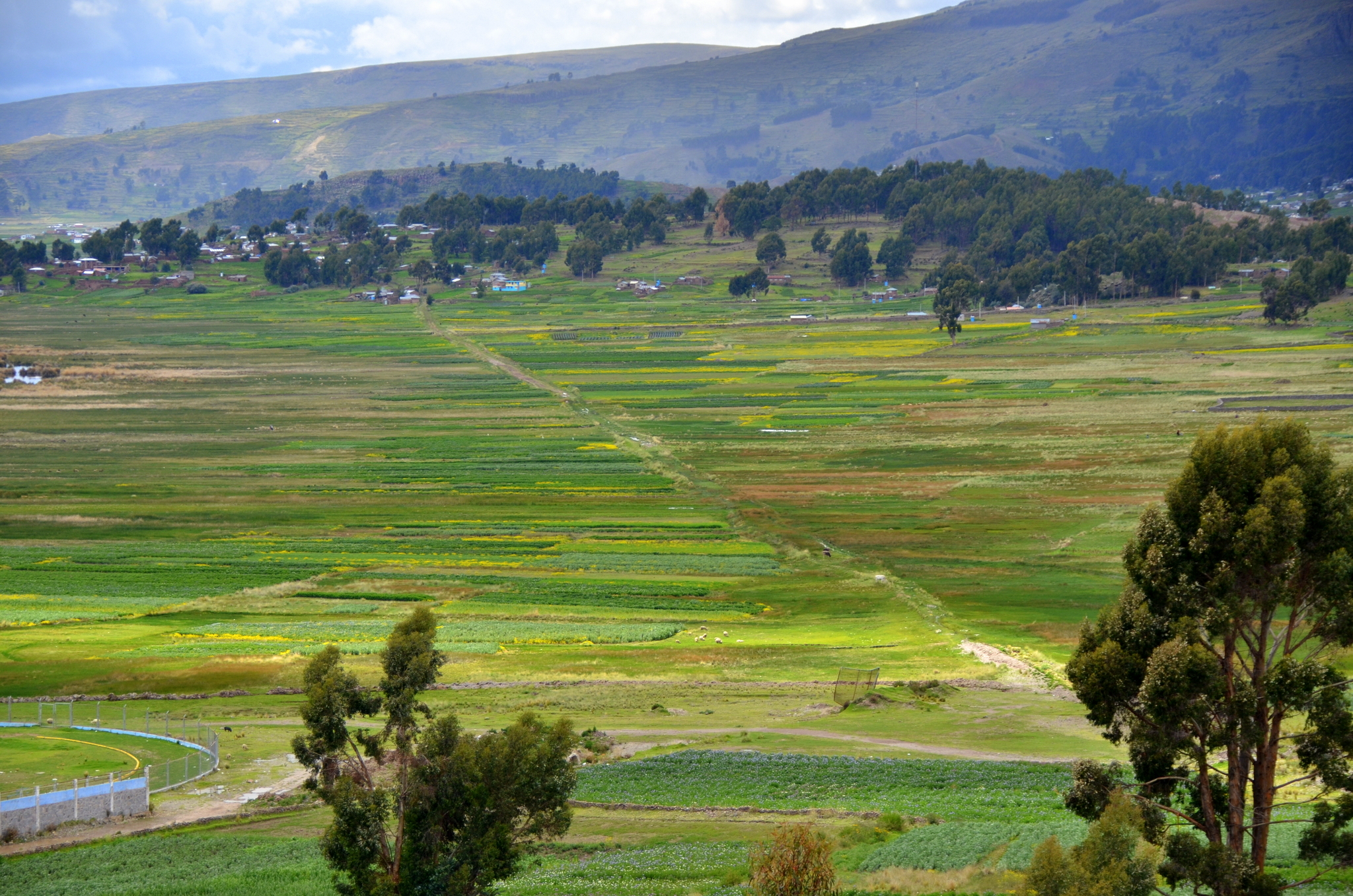 The Inka road was built on embankments to form causeways in order to be used also when the water level in the nearby lake Titicaca rose